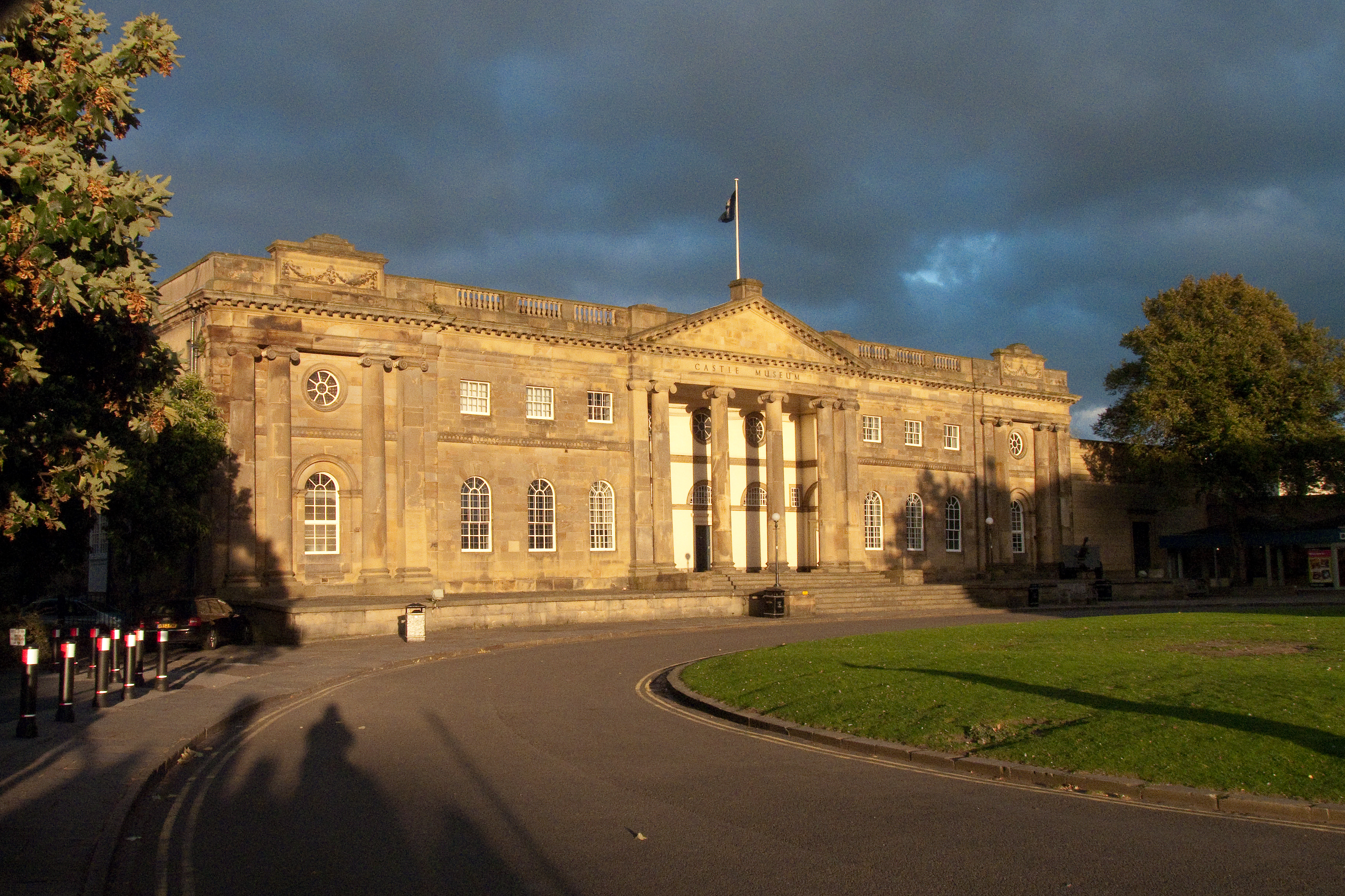 York Castle Museum, York Minster, England